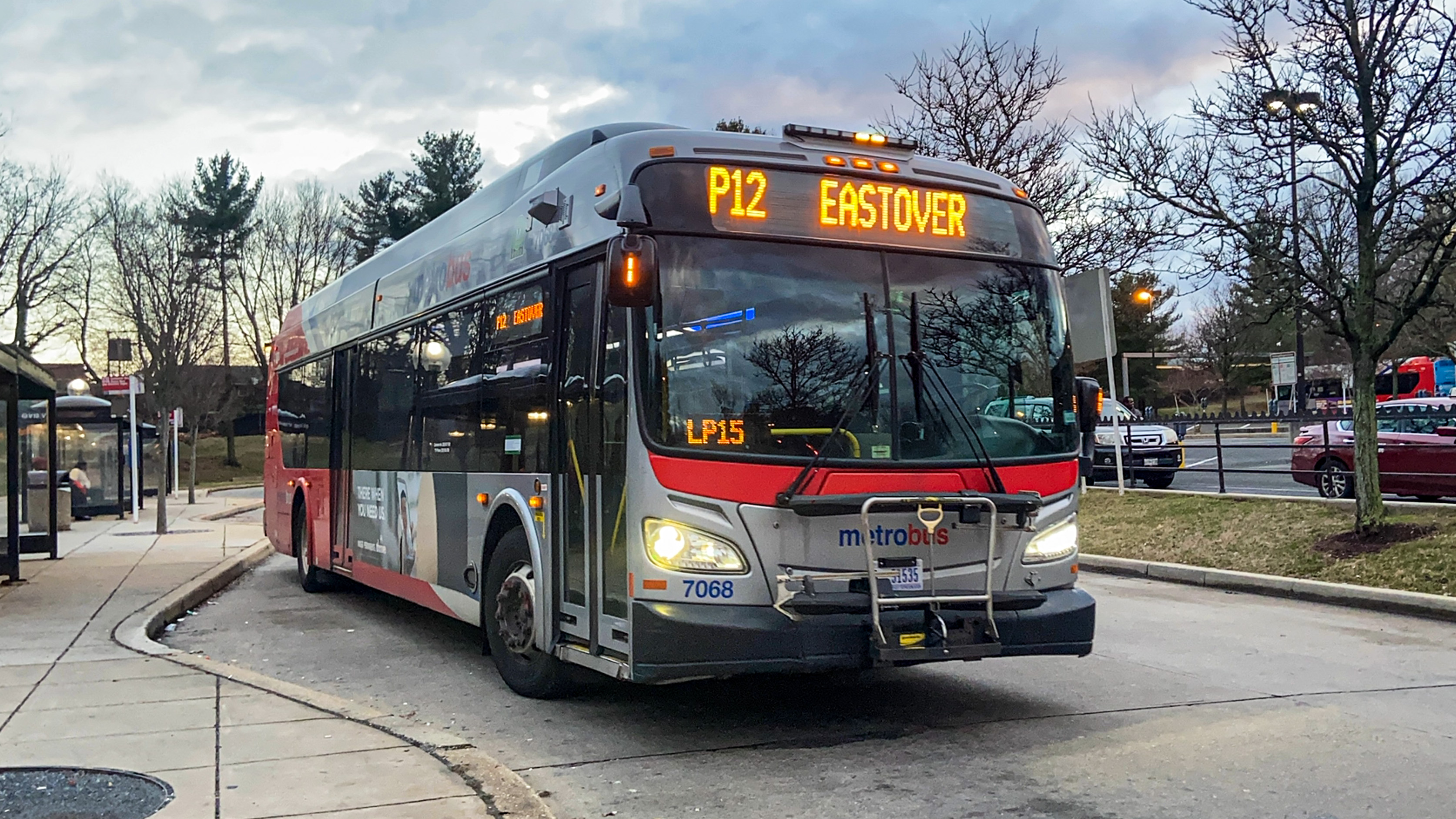 WMATA New Flyer XDE40 7068 on Route P12 At Addison Road station